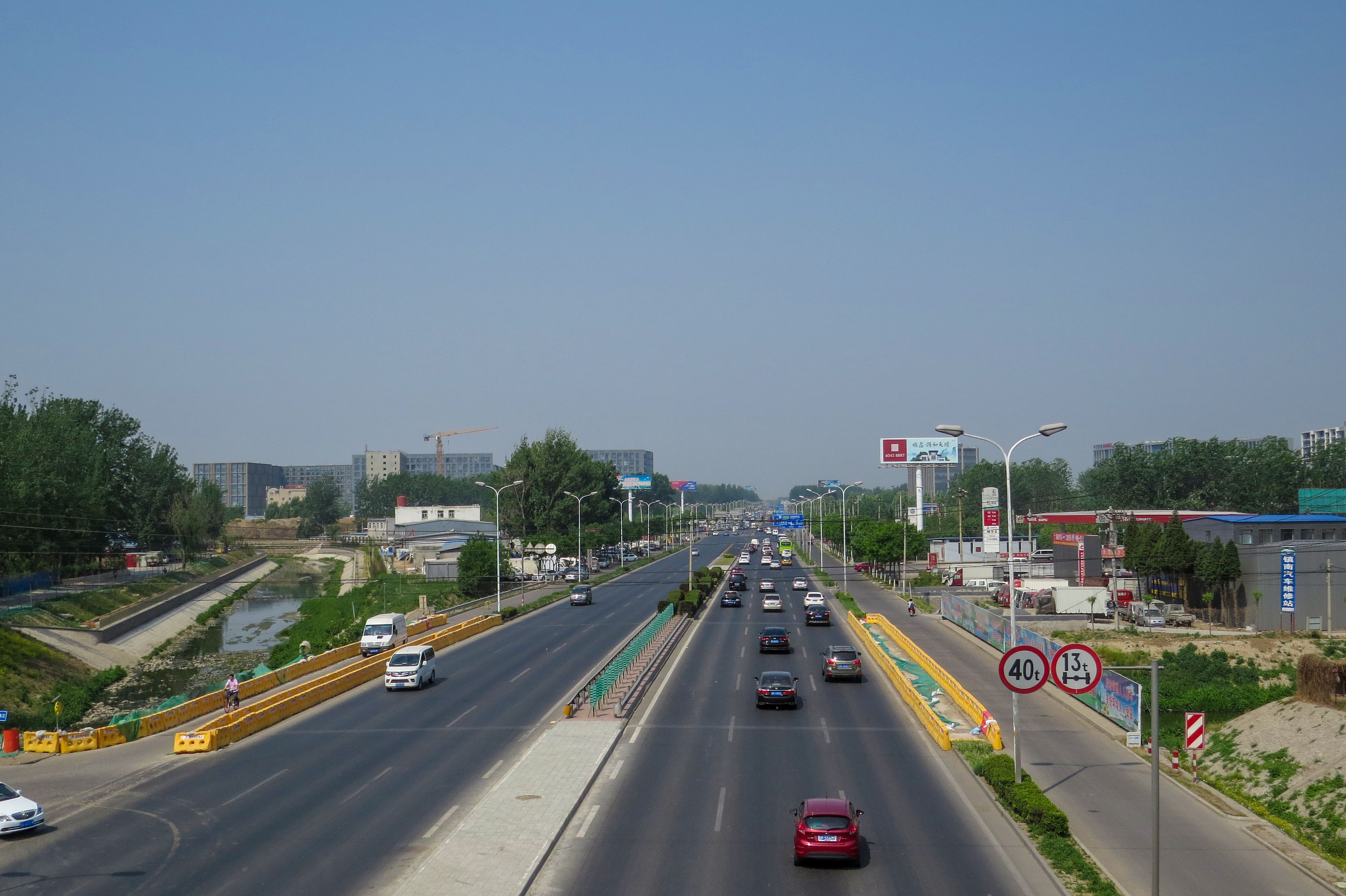 Nanfaxin is actually an "Arsenic" name...